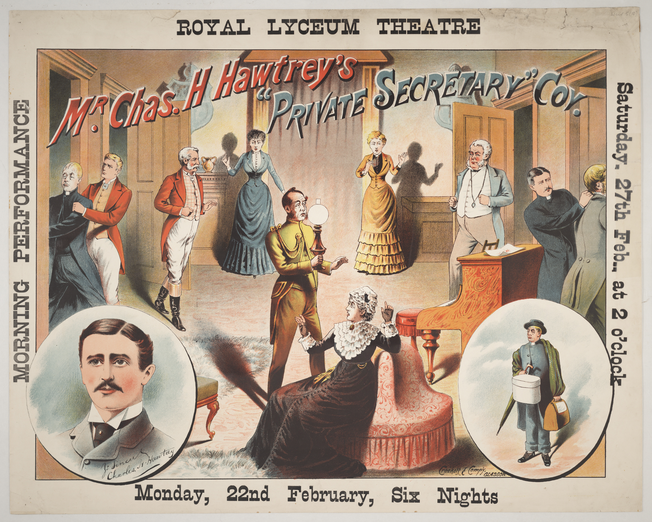 Mr. Chas. H. Hawtrey's Comedy Company (From the Globe Theatre, London). Caption: 'I'm not delicate'. Printed by Clement-Smith & Co[mpan]y, London.